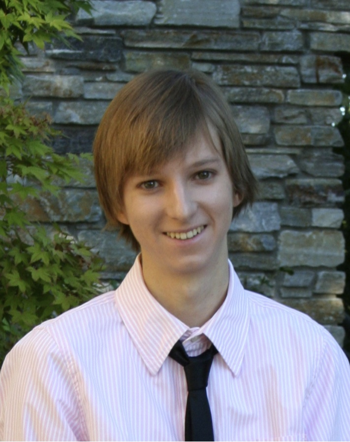 Taylor Wilson